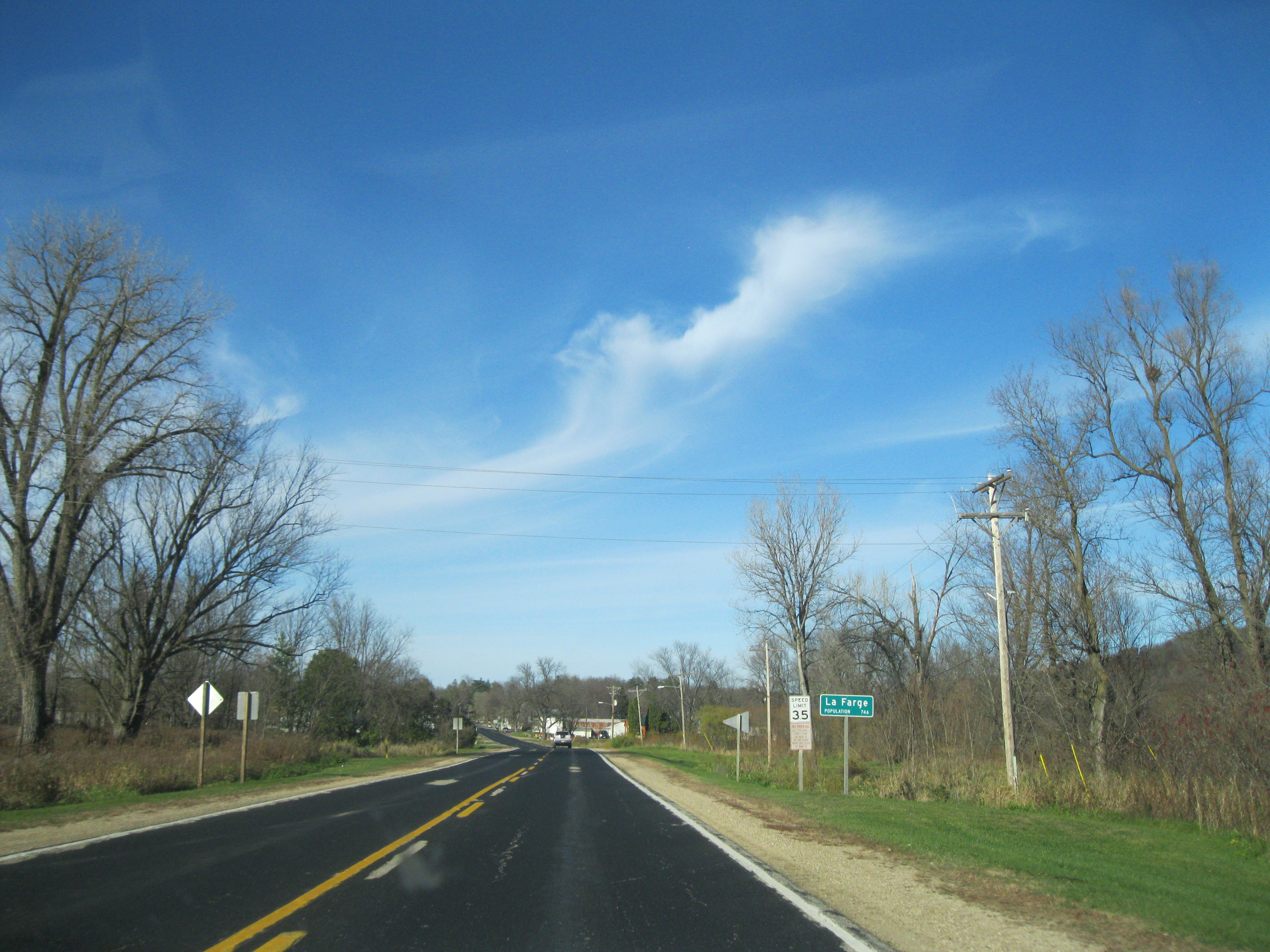 Entering La Farge, Wisconsin from the south on Wisconsin Highway 131.